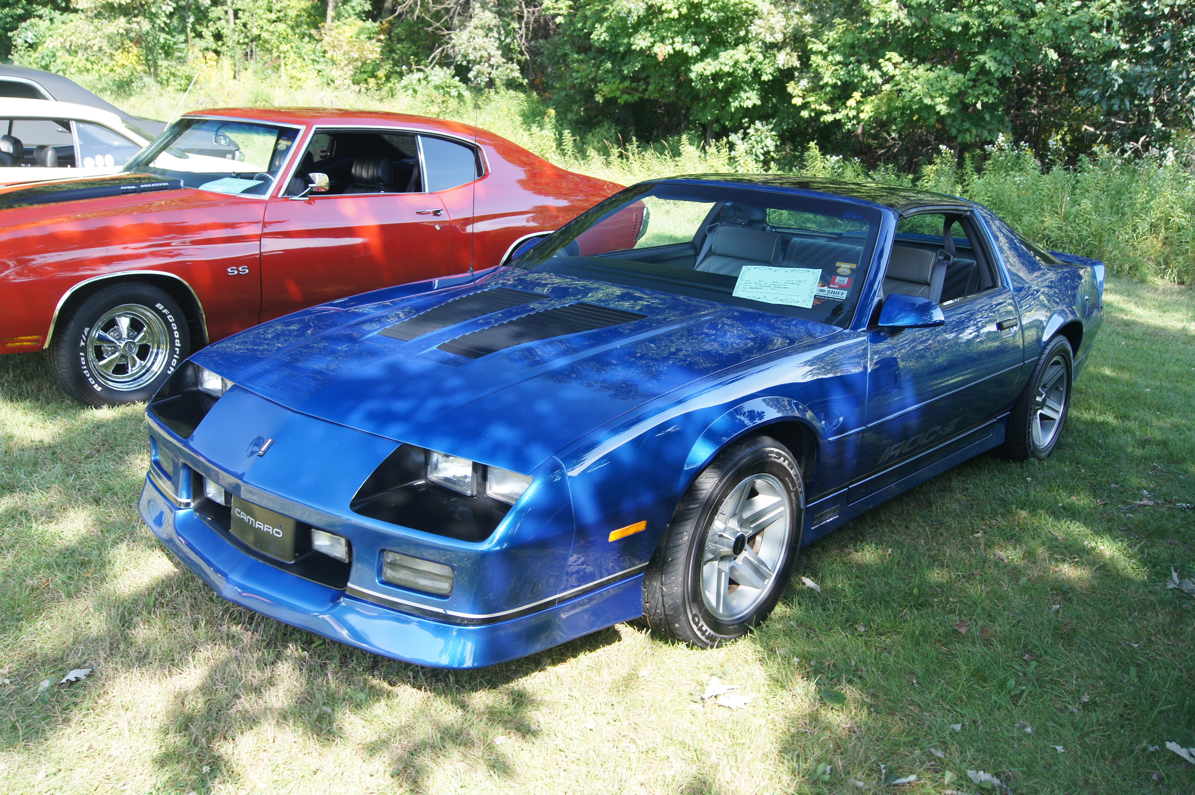 47th Annual Twin Cities Collectors Car Show & Swap Meet August 2014 Aquatore Park Blaine, Minnesota More car pictures separated by make by clicking on this Flickr link